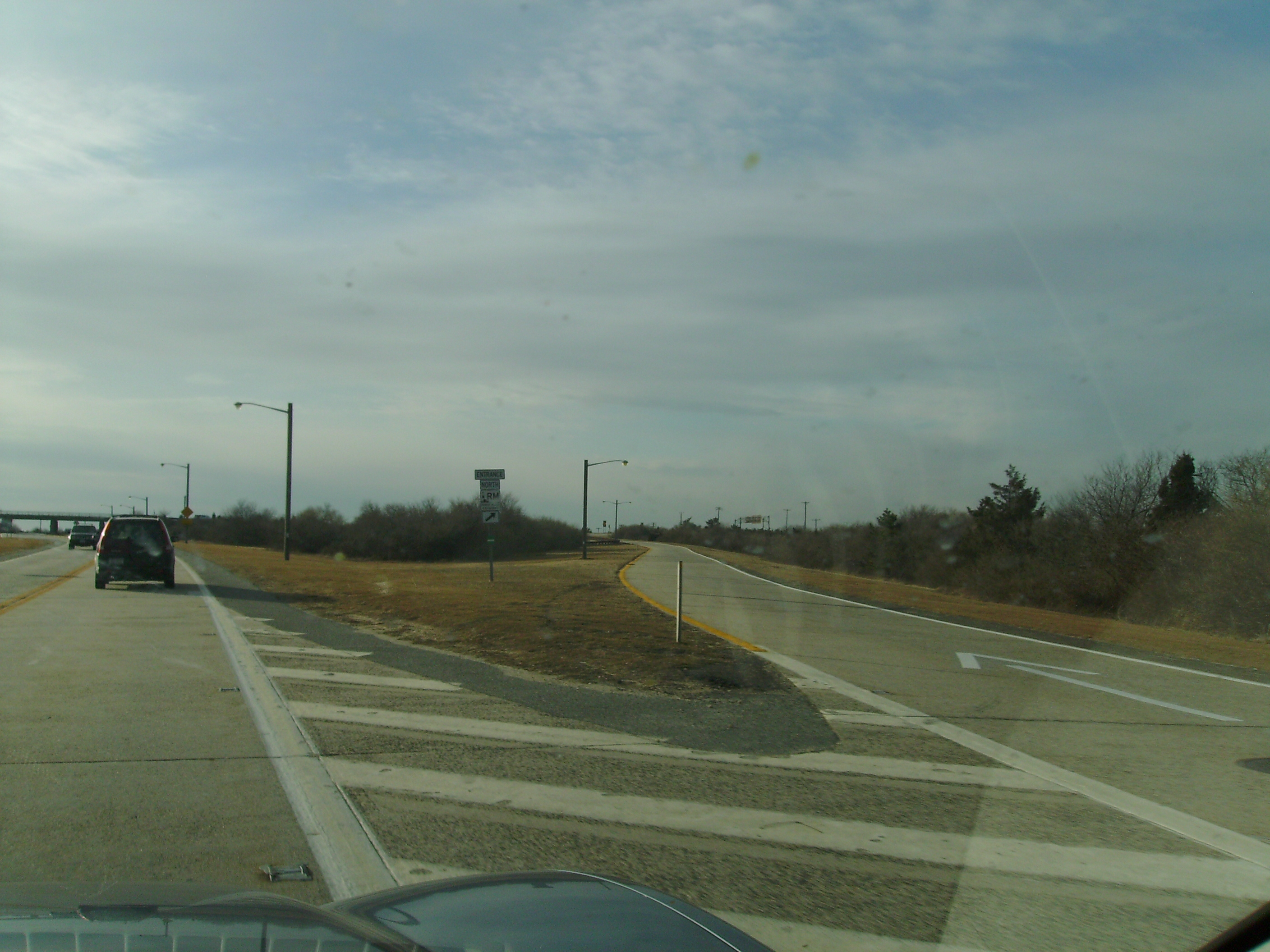 Sign for the Robert Moses Causeway along the Ocean Parkway.